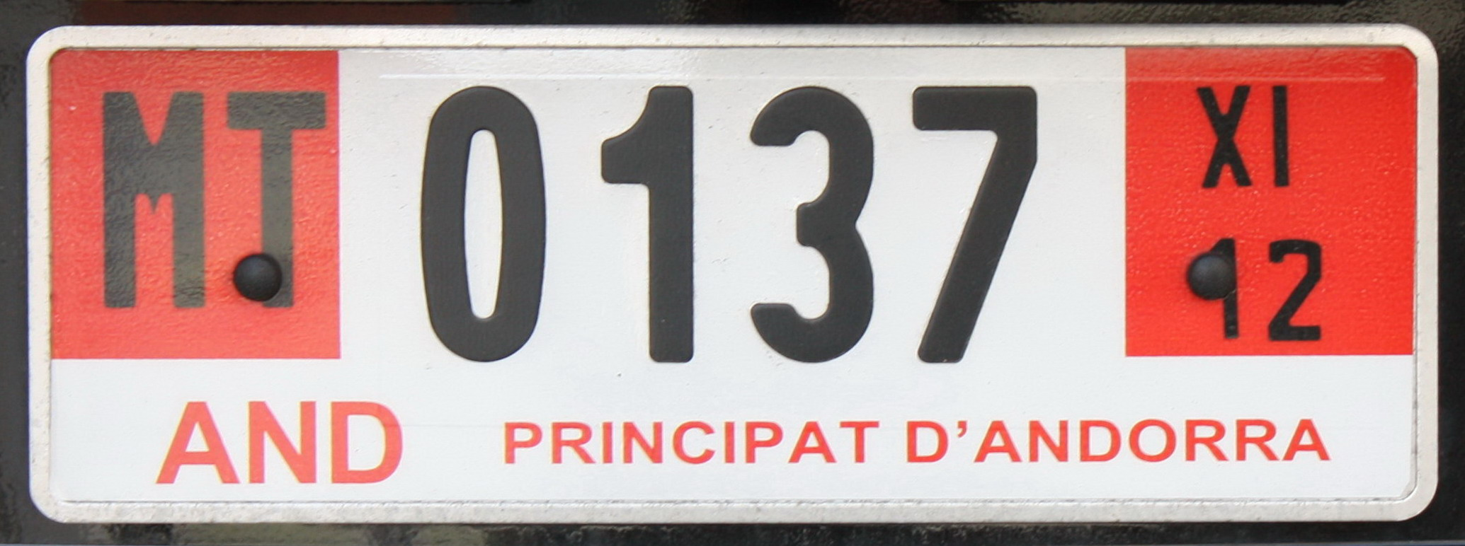 Licence plate from Andorra as seen in 2012.